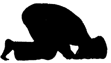 Ṣalāt